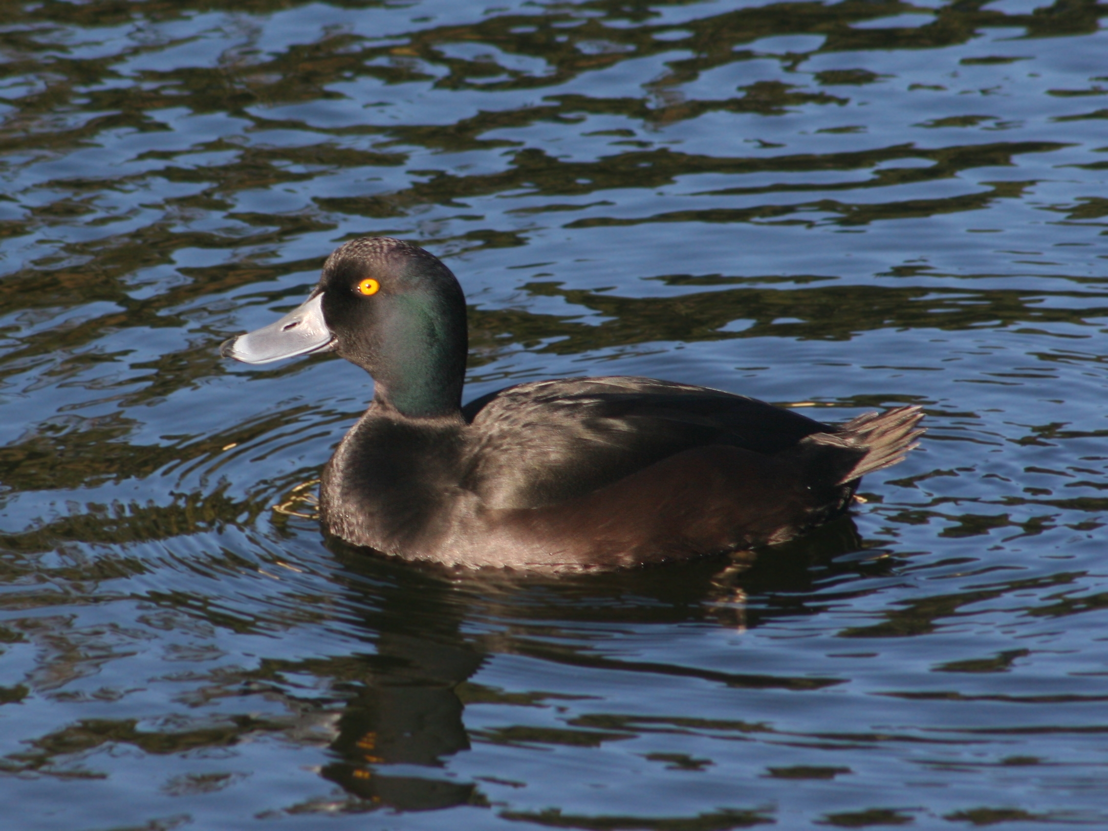 New Zealand Scaup. Karori Wildlife Sanctuary, Wellington, New Zealand. Māori: Papango